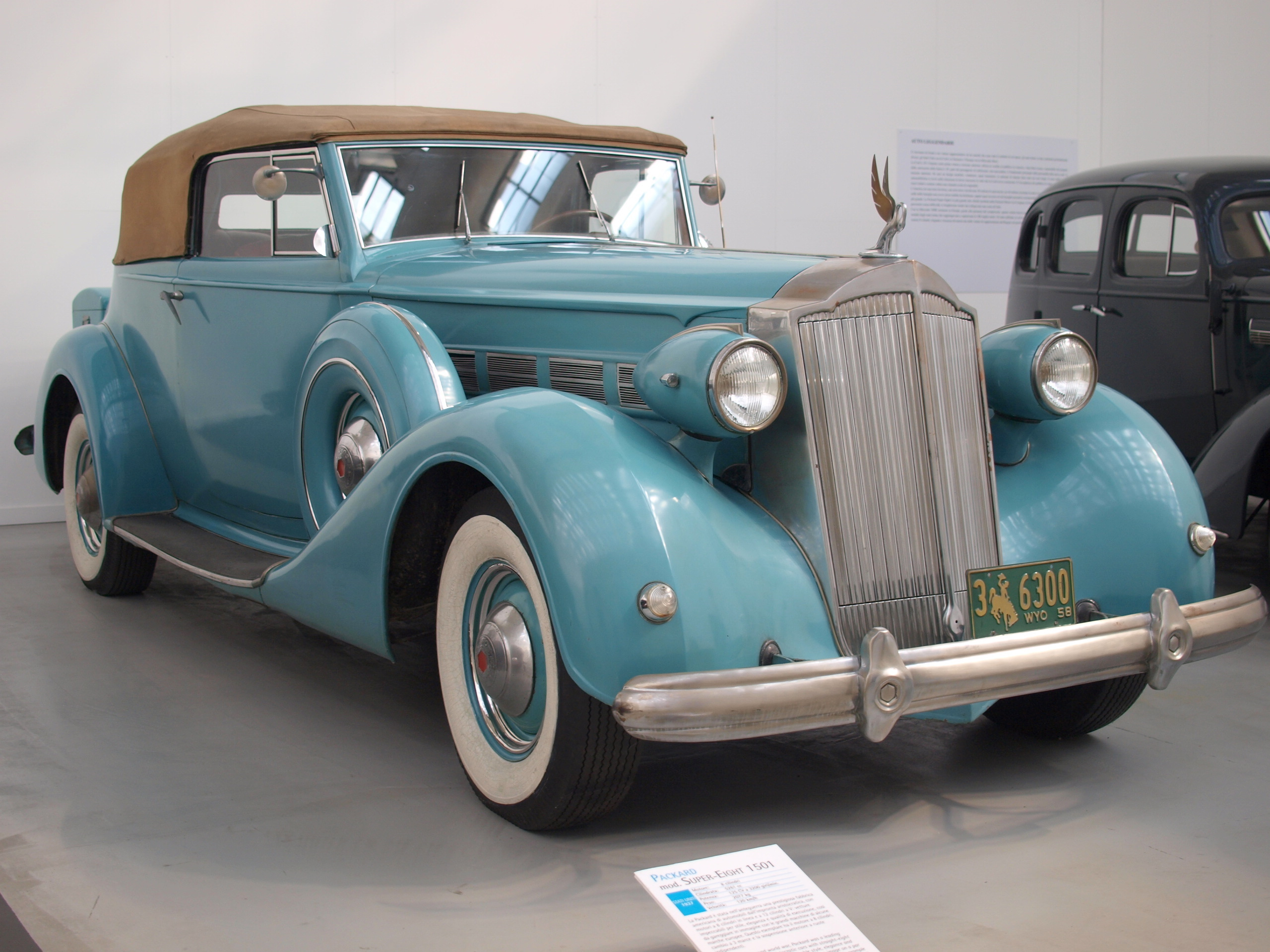 1937 Packard Super Eight model 1501 Convertible Victoria, body style #1007 (1937). Car carries accessory chrome grille frame (standard in some European countries). Seen at L'evoluzione dell'automobile 2009